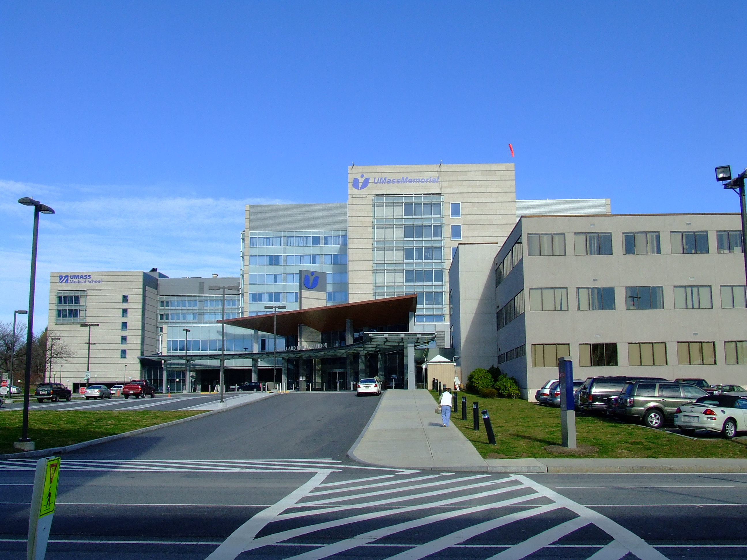 University of Massachusetts Medical School and hospital, Worcester, MA; South side.